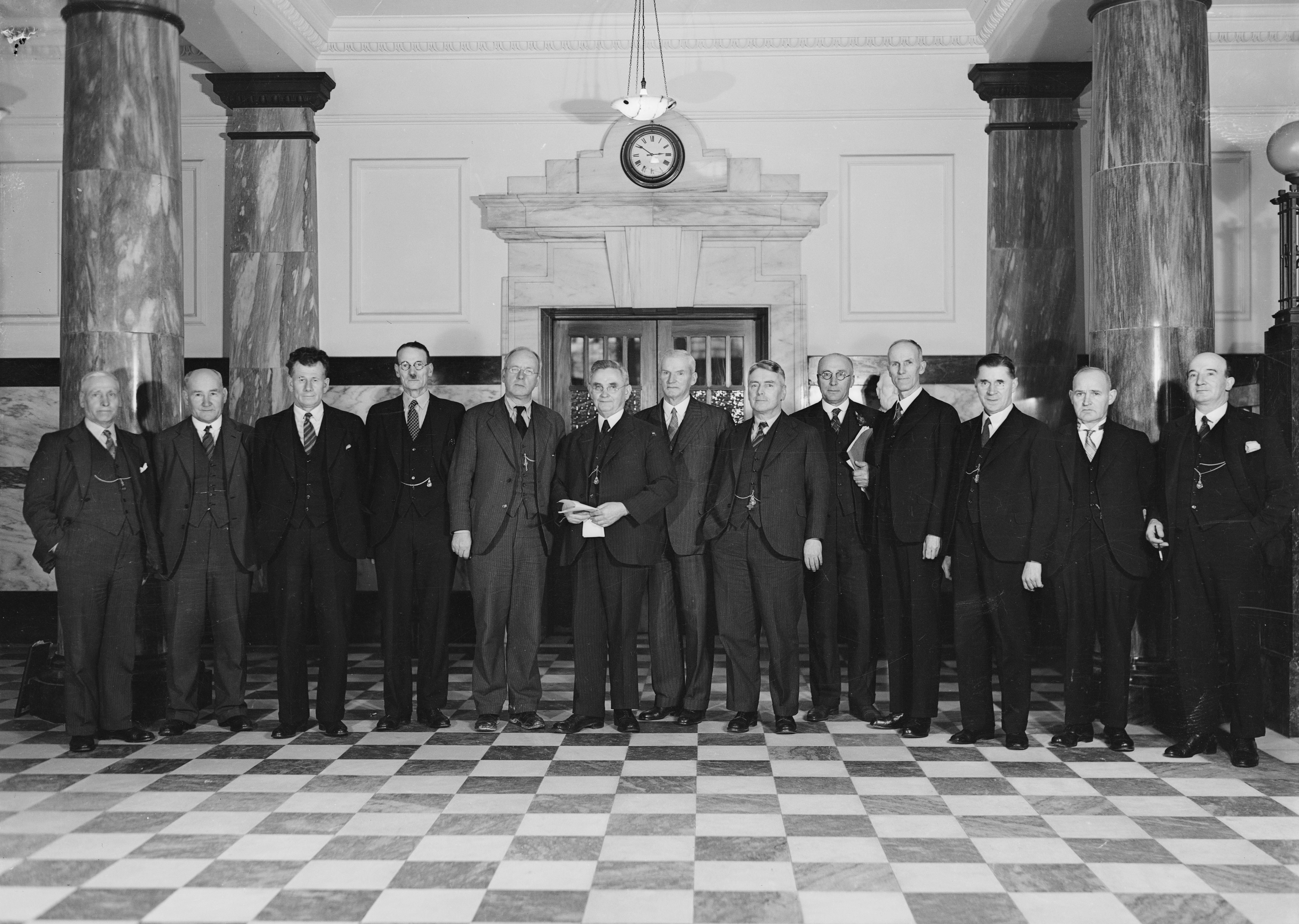 Members of the New Zealand Labour cabinet in the foyer of Parliament Buildings, Wellington, June 1936. From left to right: William Lee Martin, Hubert Thomas Armstrong, Daniel Giles Sullivan, Robert Semple, Peter Fraser, Michael Joseph Savage, Mark Anthony Fagan, Walter Nash, William Edward Parry, Henry Greathead Rex Mason, Frederick Jones, Frank Langstone, and Patrick Charles Webb. Shows them standing on a chequered marble floor, alongside marble columns. Photograph taken by S P Andrew Ltd.